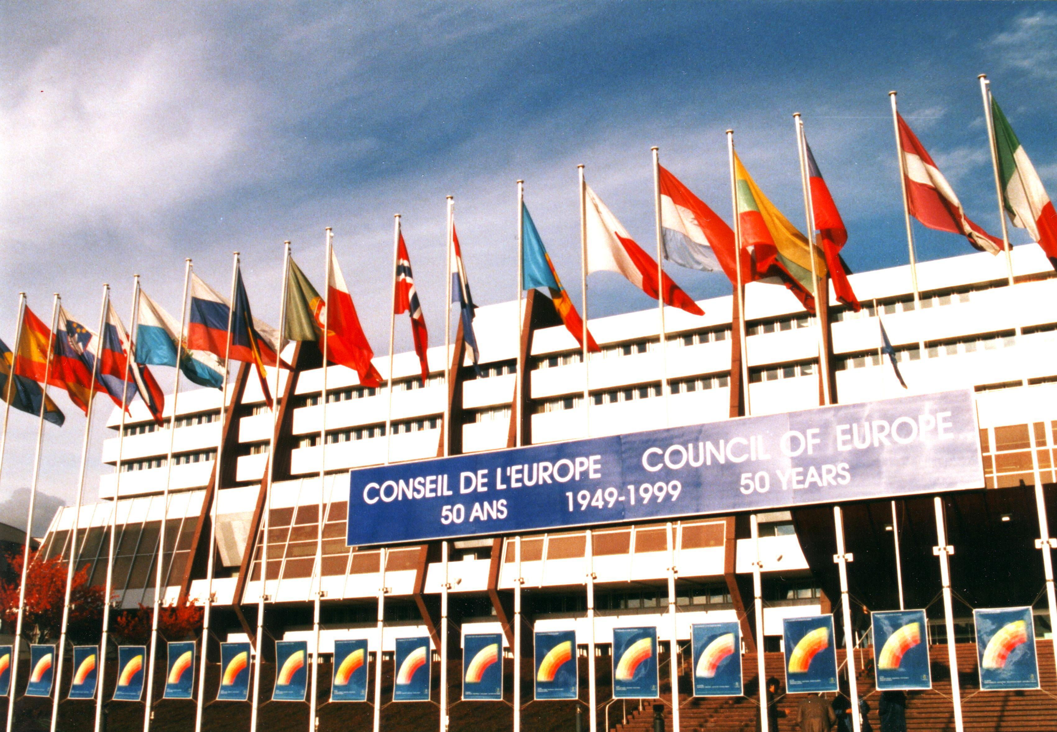 Strasbourg: Council of Europe, 50 years.